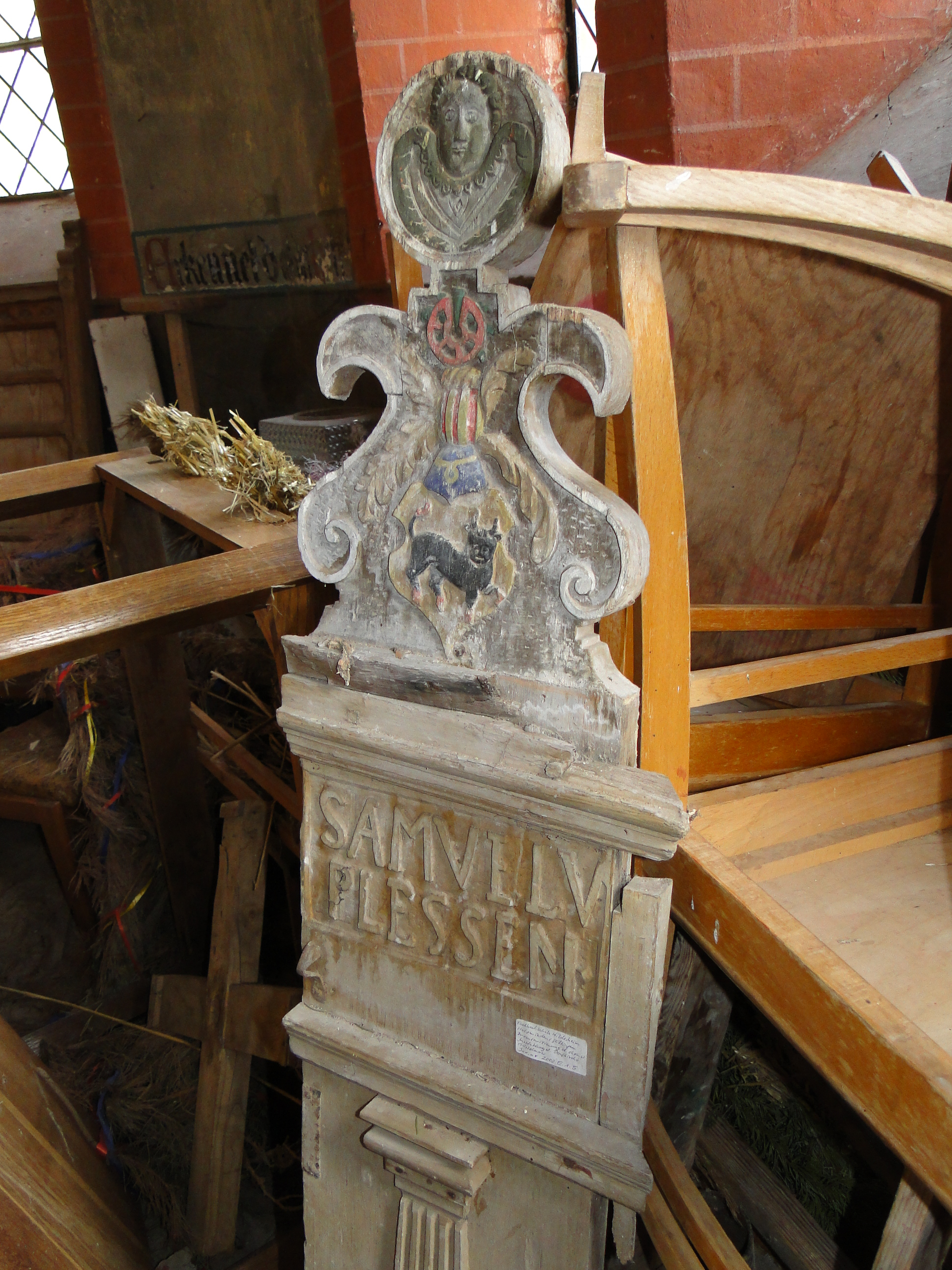 Church in Holzendorf (near Sternberg), distrct Ludwigslust-Parchim, Mecklenburg-Vorpommern, Germany